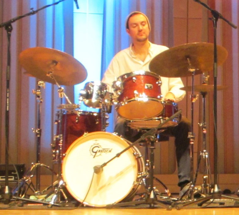 Scottish drummer Corrie Dick shown performing at The Dora Stoutzker Hall, Royal Welsh College of Music & Drama in Cardiff in 2016